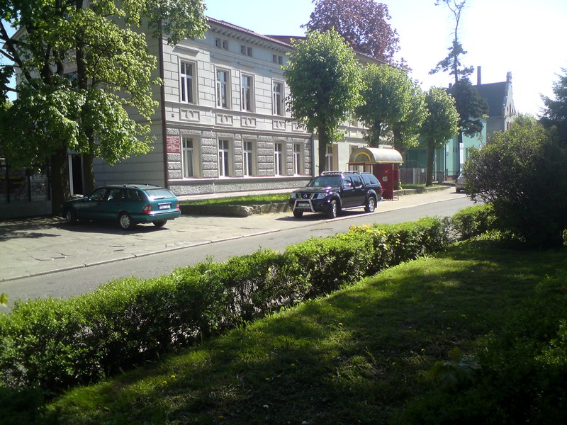 Former building of dormitory of Of the general education Secondary school in Gryfice (Poland)